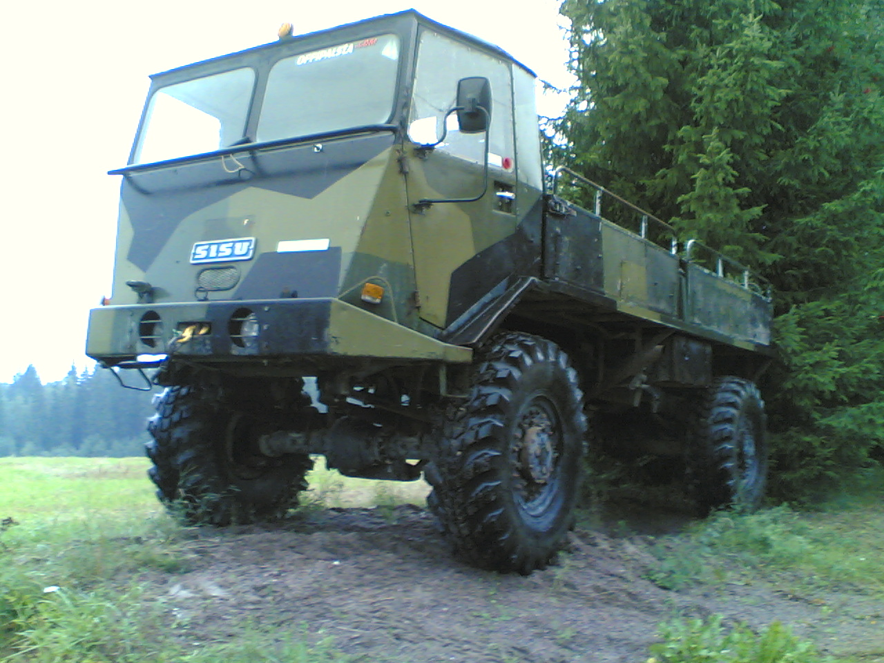 Sisu A-45 "Proto"; rims and tyres are not original (14.5–20") but size 14.0–20".